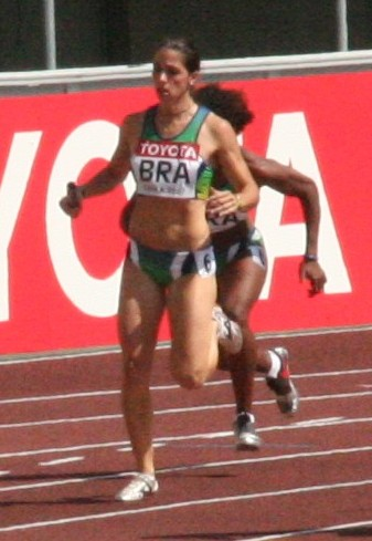 World Athletics Championships 2007 in Osaka - Scene from first heat of the women*s 4*100 relay (1st round): Thaissa Presti